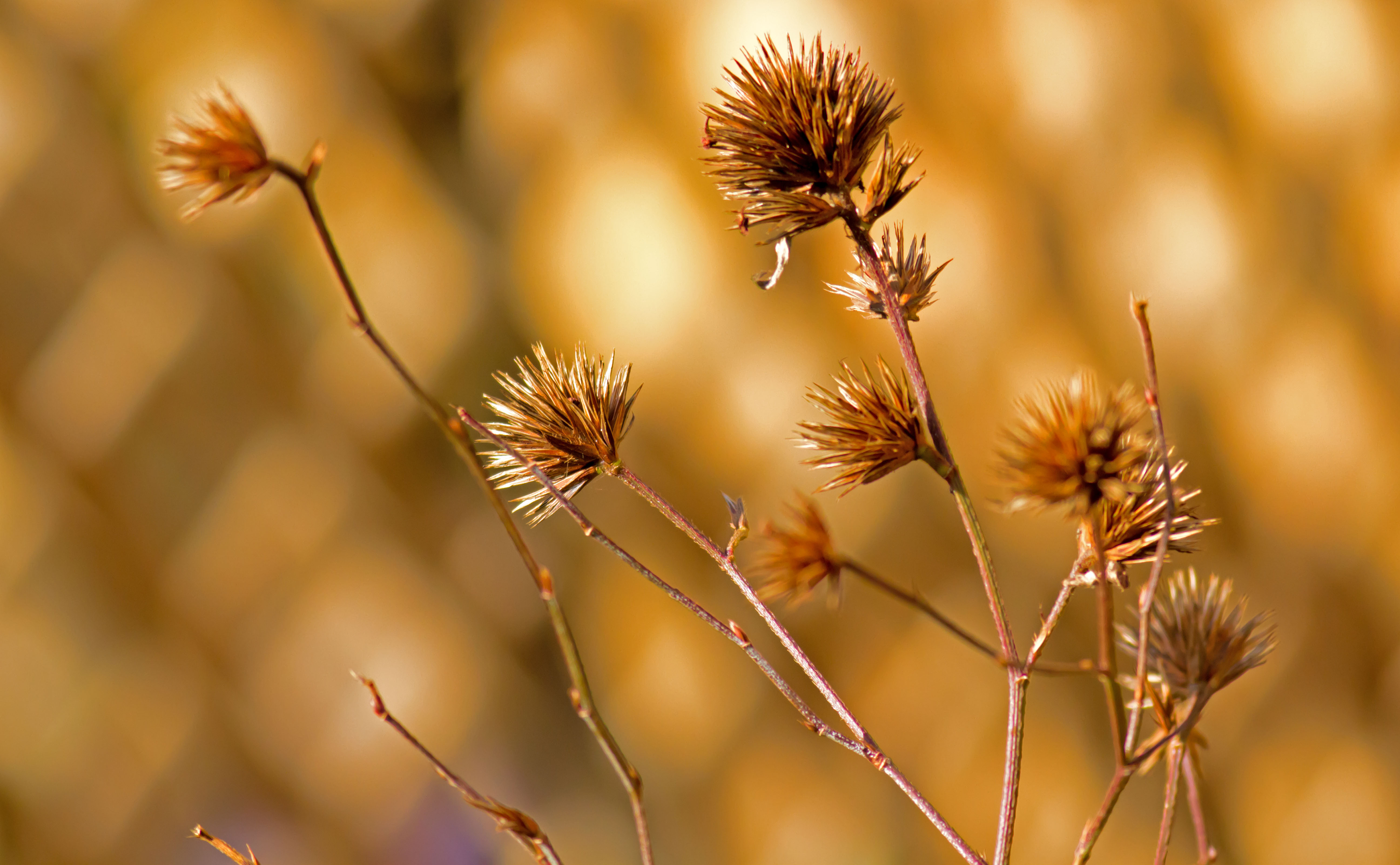 Ceratostigma willmottianum seed heads